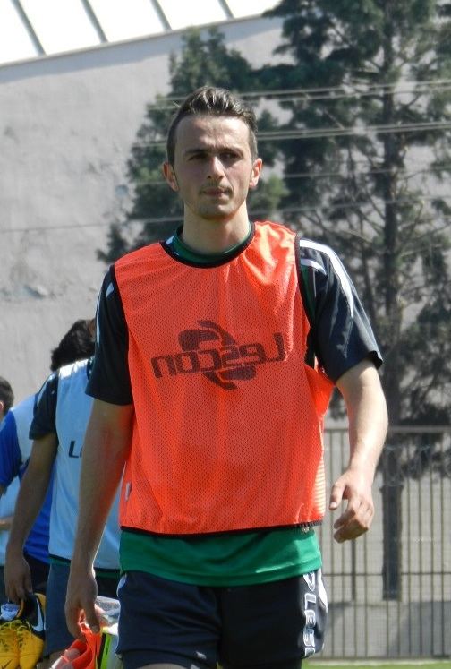 Muhammed Bulut, 2013